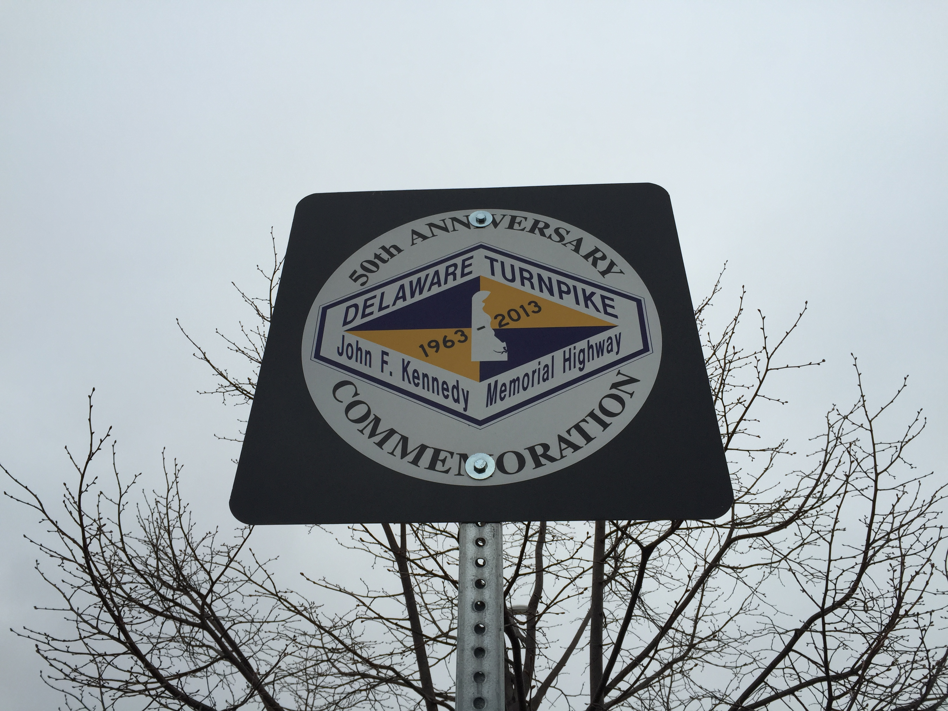 Delaware Turnpike 50th Anniversary sign at the Delaware House Welcome Center on the Delaware Turnpike (Interstate 95) near Newark, Delaware